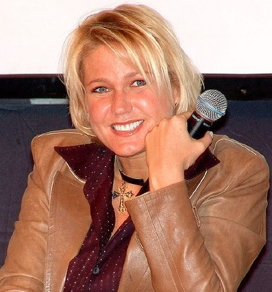 Brazillian TV celebrity Xuxa. (cropped version of Image:Xuxa.jpg)